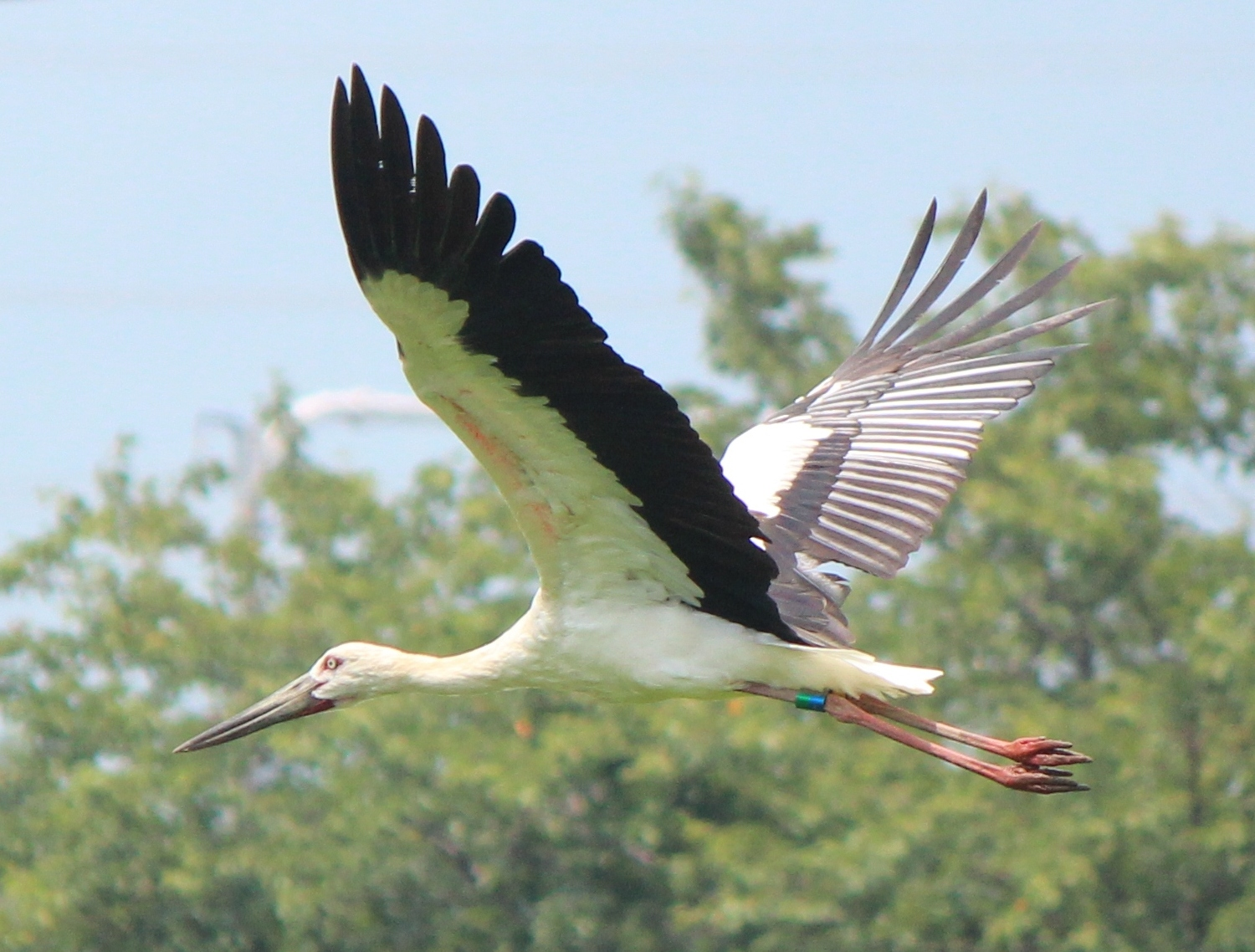 Ciconia boyciana, male (No.J0048) in flight, in Maibara, Shiga prefecture, Japan.